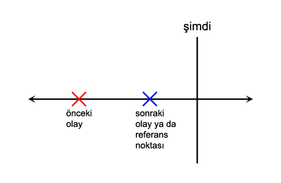 One of the imperfect compound past tenses in Turkish. The diagram represents one of the many uses of the tense. Example: "Annem eve geldiğinde kardeşim çoktan uyumuştu."